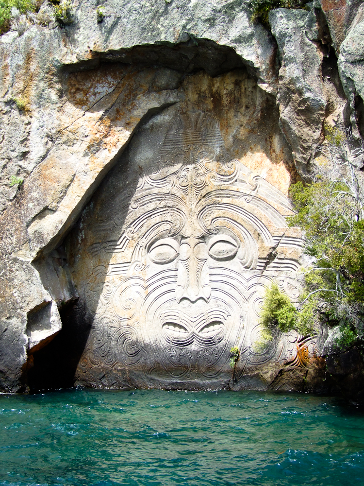 Maori rock carvings at Mine Bay on Lake Taupō, over 10 metres high and are only accesable by boat or Kayak.